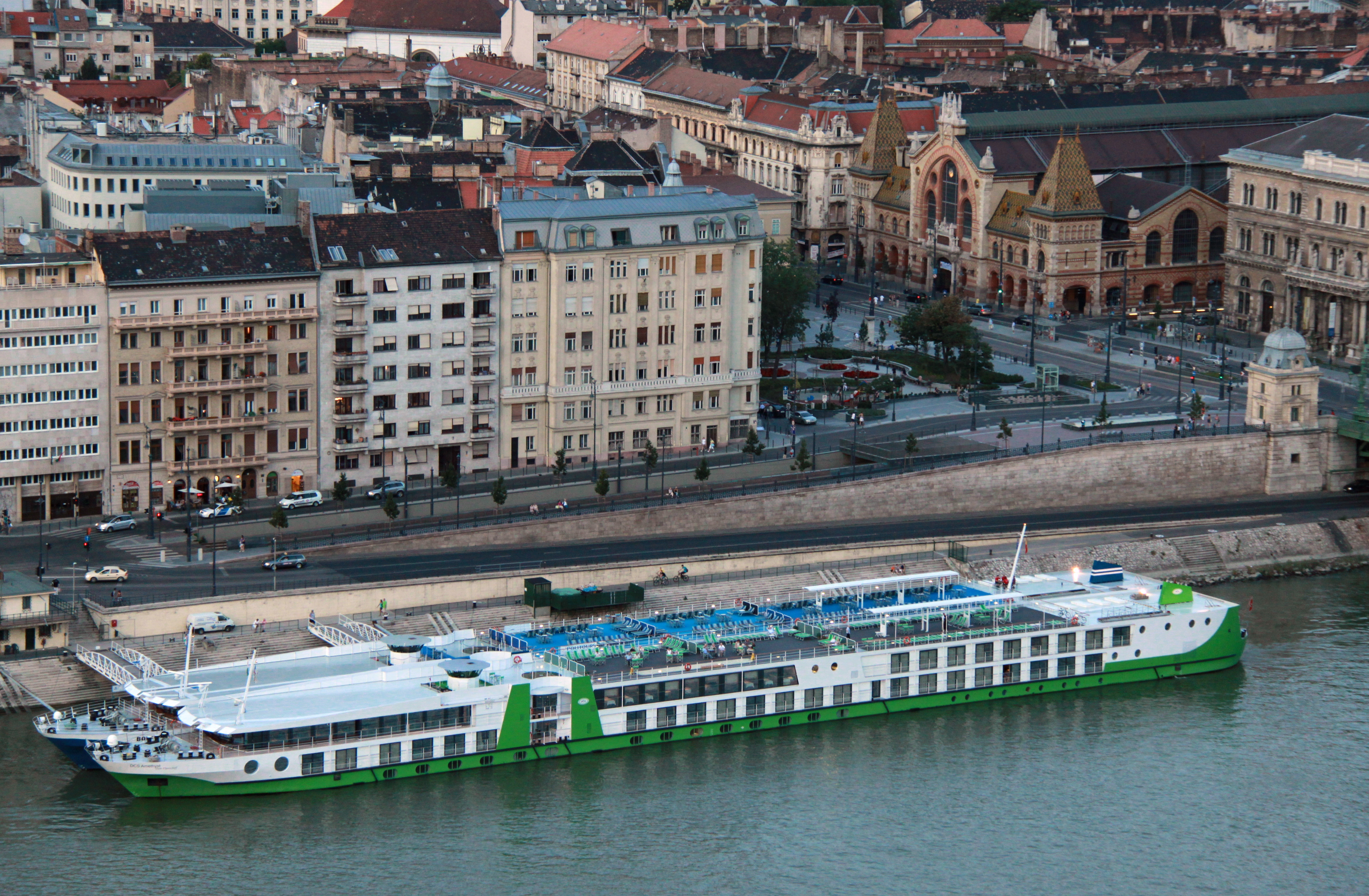 River cruise ship DCS Amethist and the sistership Bolero in Budapest